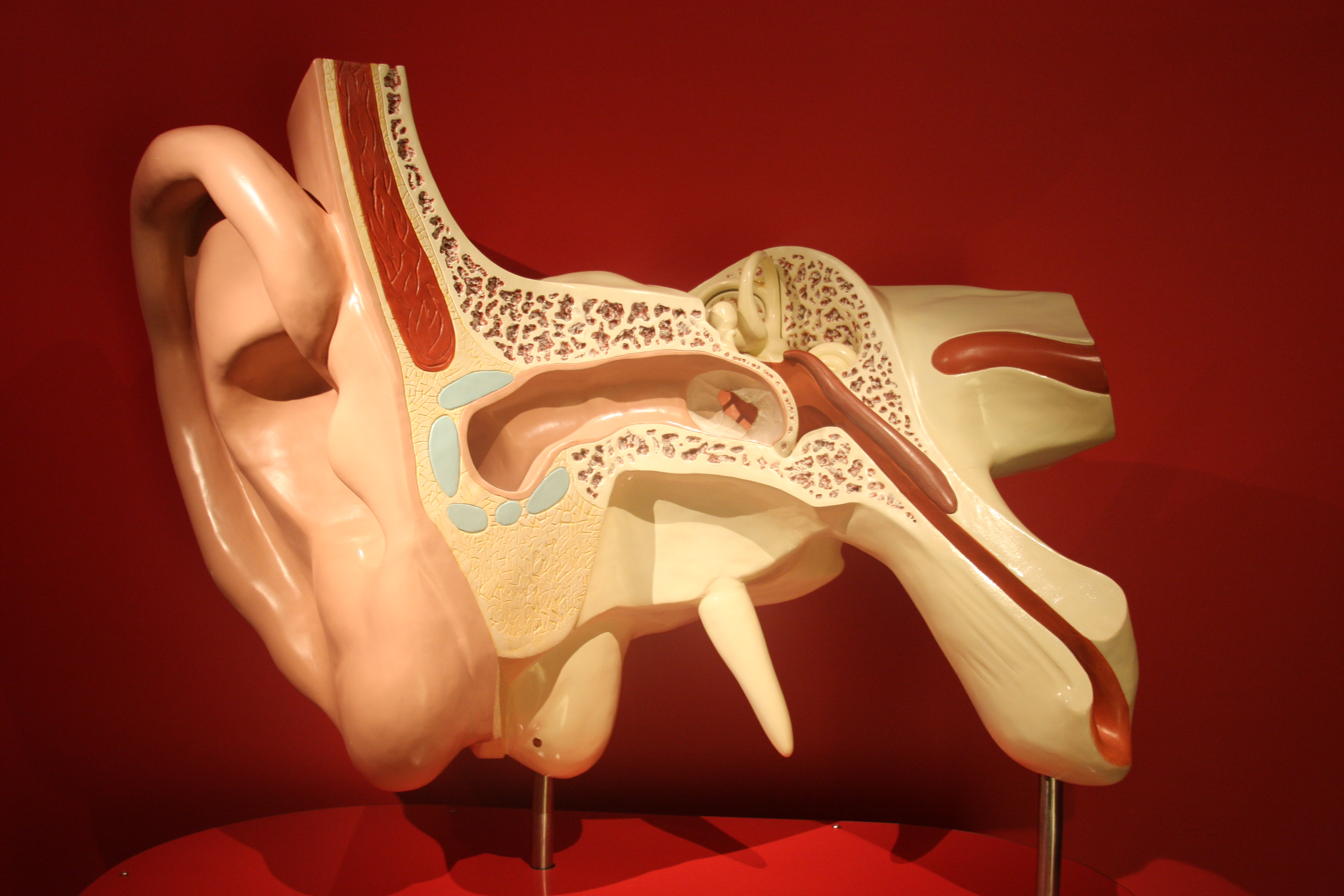 Model of the human ear. Technical Museum, Oslo, Norway.